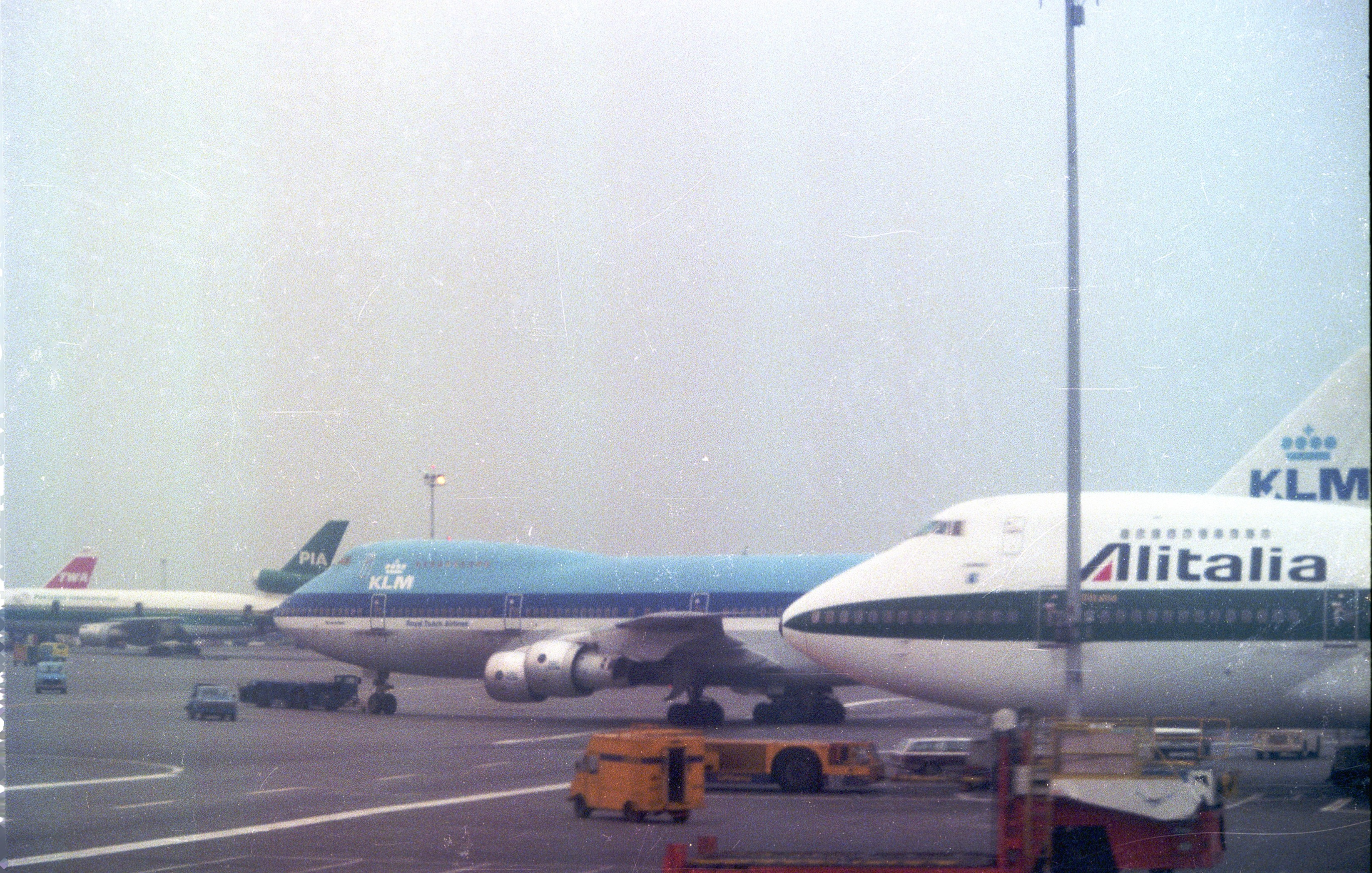 Boeing 747-206B PH-BUE (cn 20399/156) "Rio de la Plata" KLM - Royal Dutch Airlines (last served with Corsair, France, as F-GLNA. Scrapped in 2003 at Paris Orly). Boeing 747-243B(SF) I-DEMC (cn 22506/492) "Taormina". Alitalia (still operating with Southern Air as N795SA in2010). New York - John F. Kennedy International (Idlewild) (JFK / KJFK) USA - New York, July 1984.